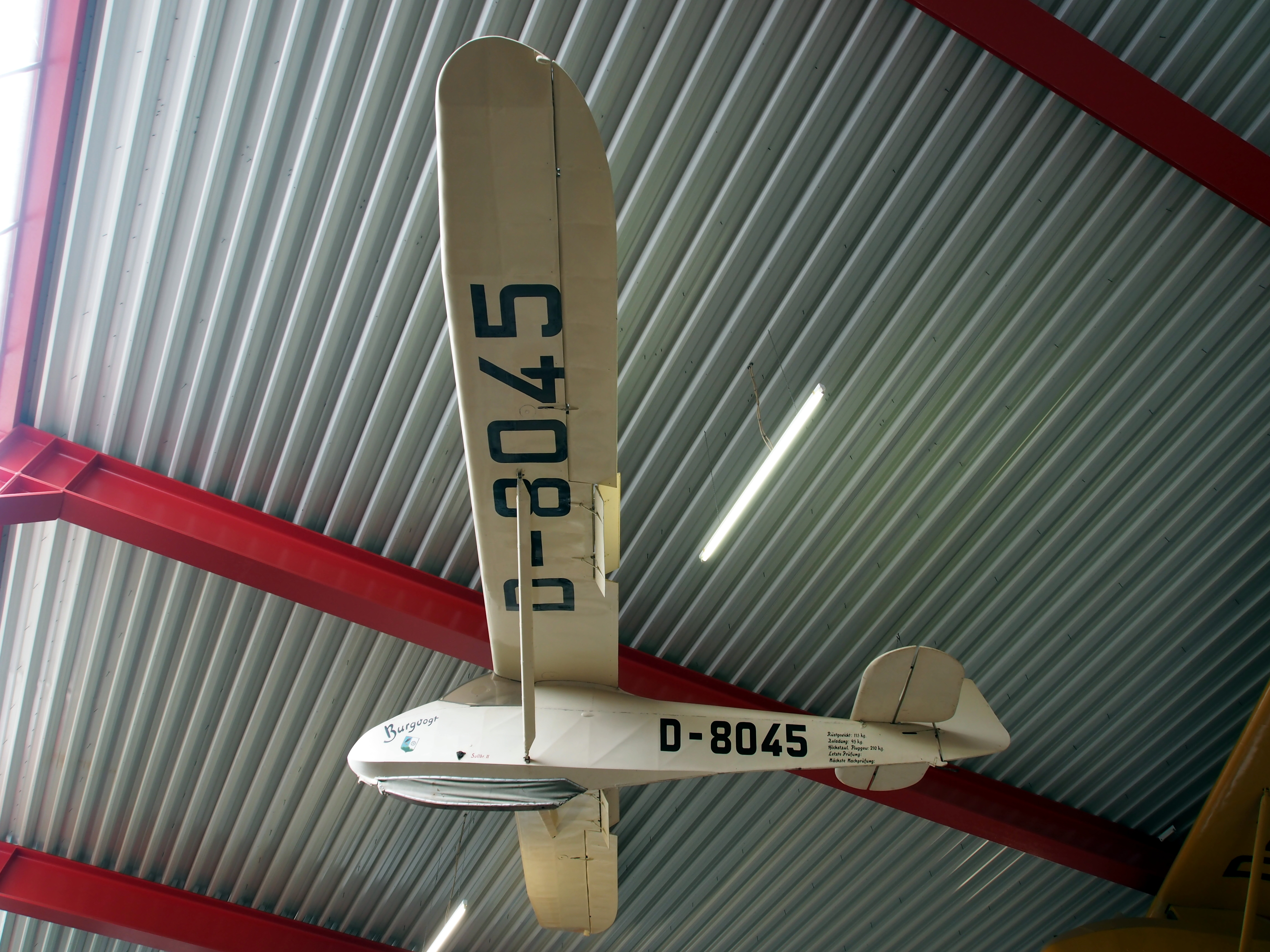 Photographed at Flugausstellung L.+P. Junior, Hermeskeil, Germany.